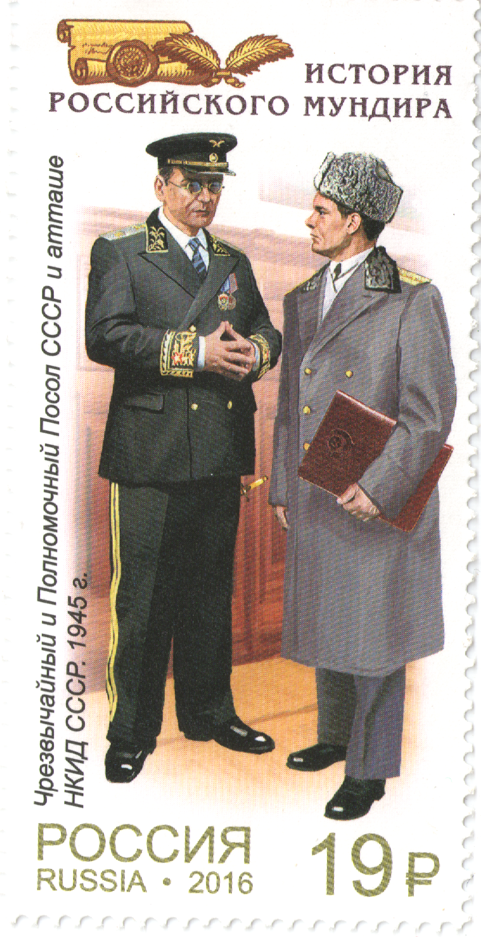 Russian postal stamp of the ambassadorial uniform. Cost 19 roubles.